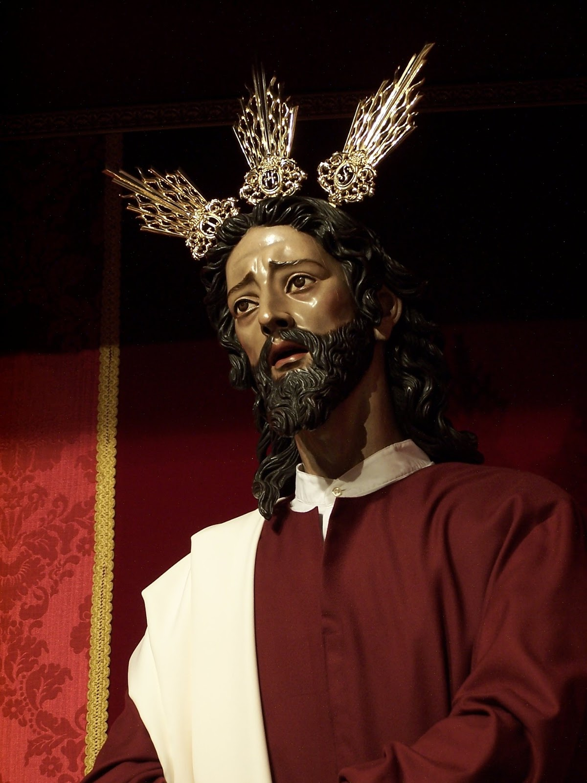 Jesús Cautivo, Hermandad del Prendimiento.